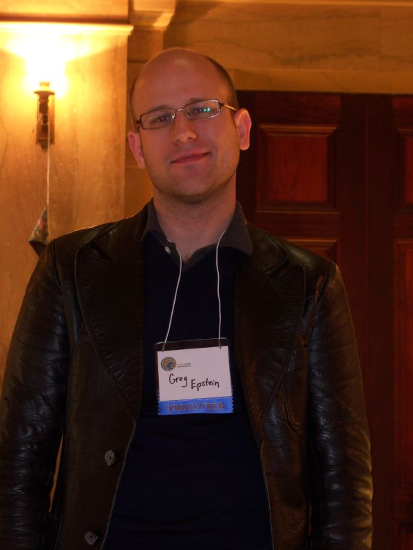 Photograph taken of Greg Epstein and posted to Flickr. Greg Epstein is the Humanist Chaplain for Harvard University, an author, and a featured guest on national radio and television shows. The photo came from this URL: It was taken of Greg Epstein while he was attending an Interfaith Youth Corp conference in Cambridge, Massachusetts. Information from the Flickr site about the original photo: Taken in Old Cambridge, Cambridge (map) Taken with a Kodak EasyShare V803 Zoom.